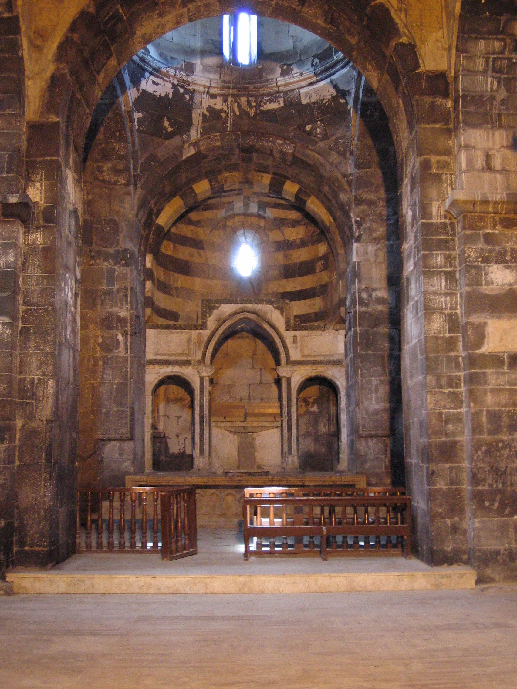 Inside Qara Kelisa (the Black Church), West Azerbaïdjan, Iran.